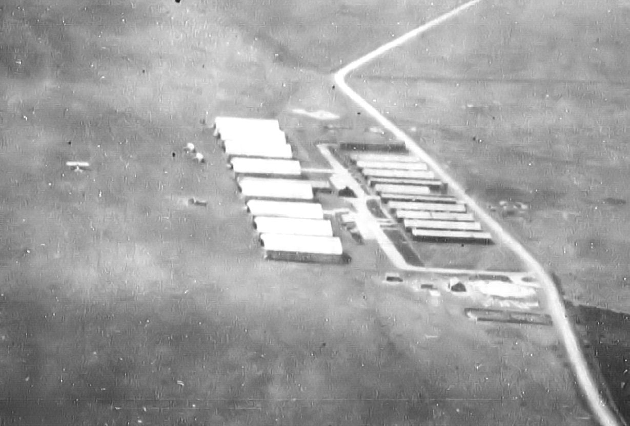 Issoudun Aerodrome - Field 5 1918 showing Nieuport 15M, 80 HP and 120 HP aircraft